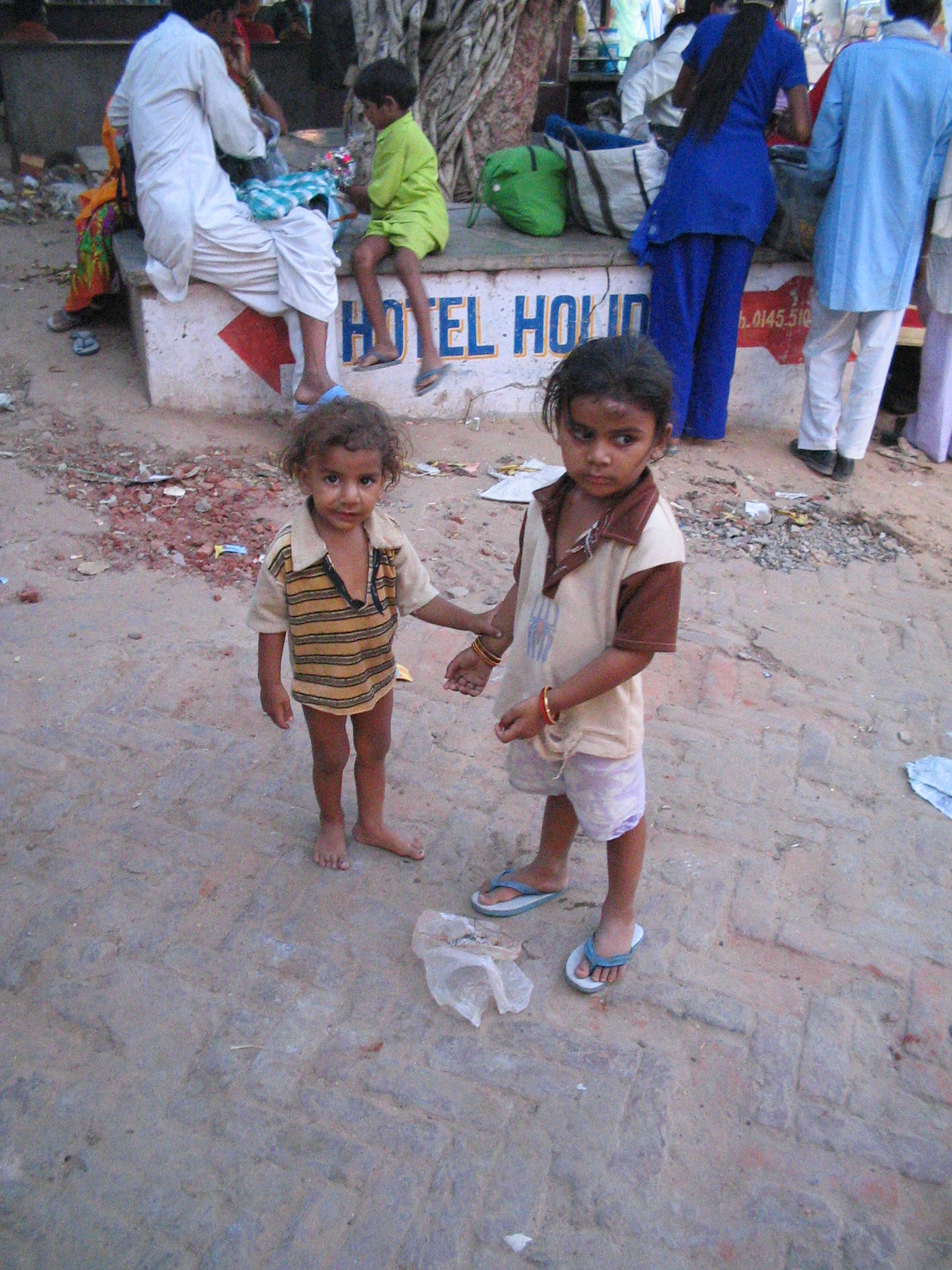 Brother and sister. Pushkar. India.